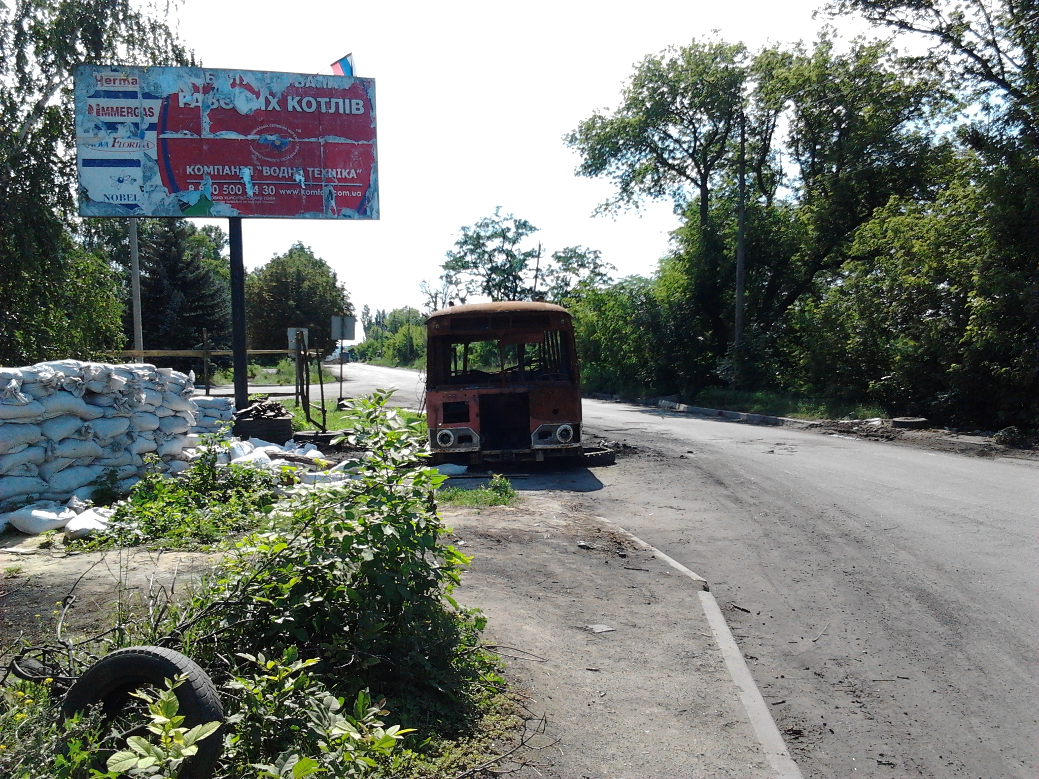 Pro-Russian terrorists burned a bus to block a road during their invasion in Kostyantynivka. Russian flag upside the billboard.